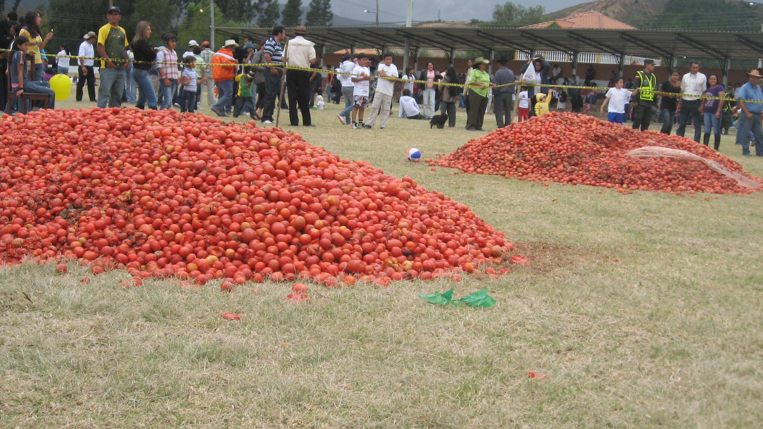 Canon PowerShot A530